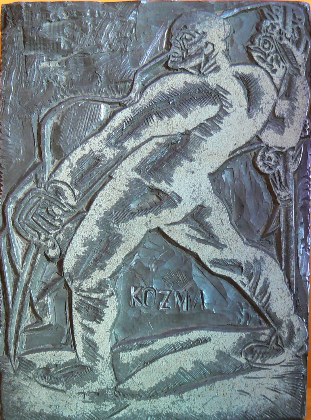 Placard János Kmetty-József Nemes Lampérth 1919